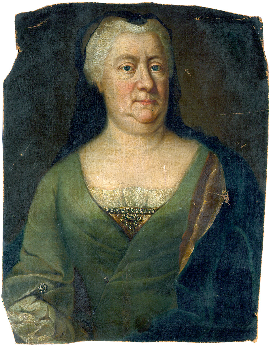 Portrait of Sophia Dorothea of Hanover (1687-1757)